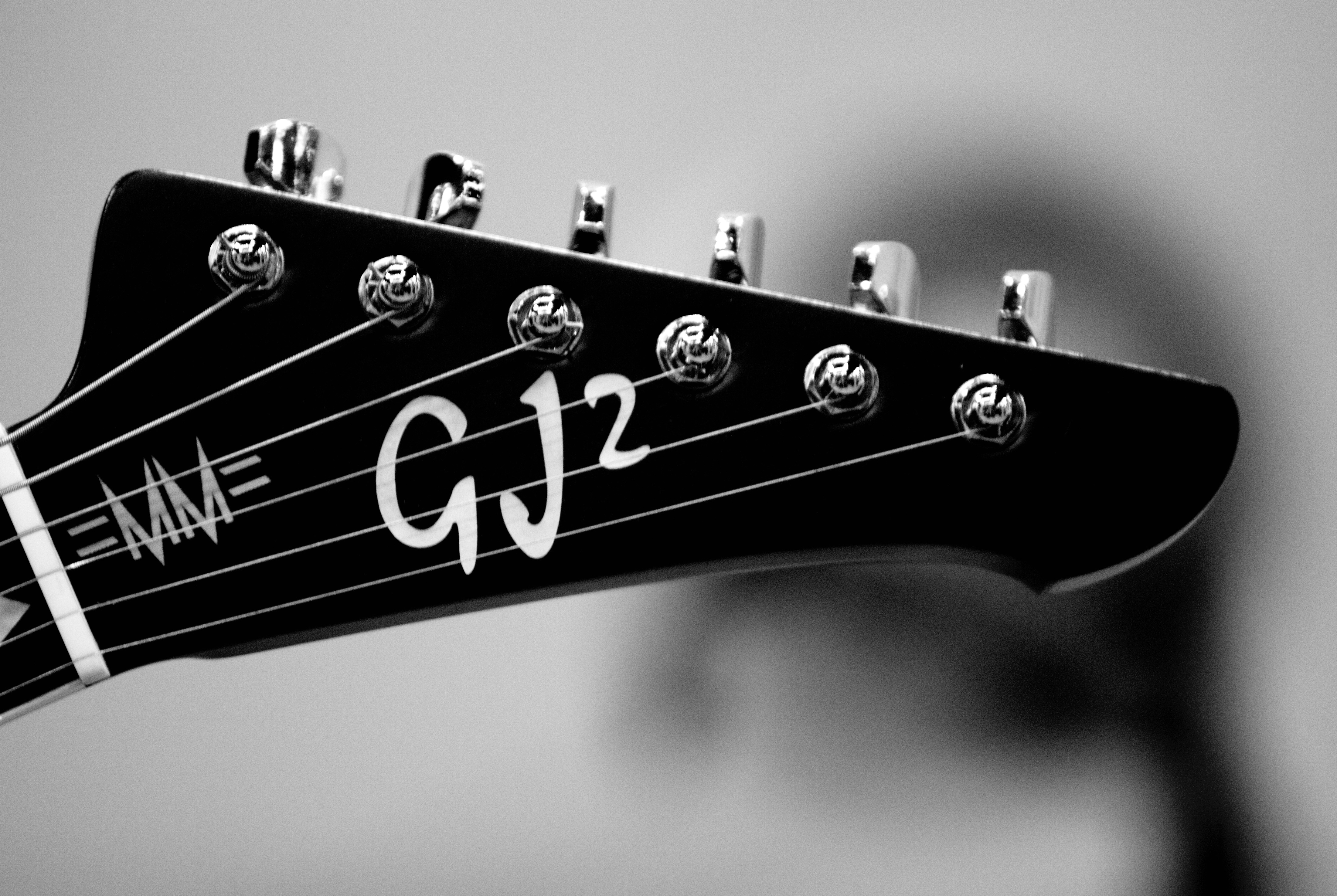 Photograph of the headstock of the Mick Murphy "Triple M" signature model guitar made by GJ2 Guitars. Photo by Gary Bandfield of TourBusLive and for use with article Mick Murphy (Guitarist)